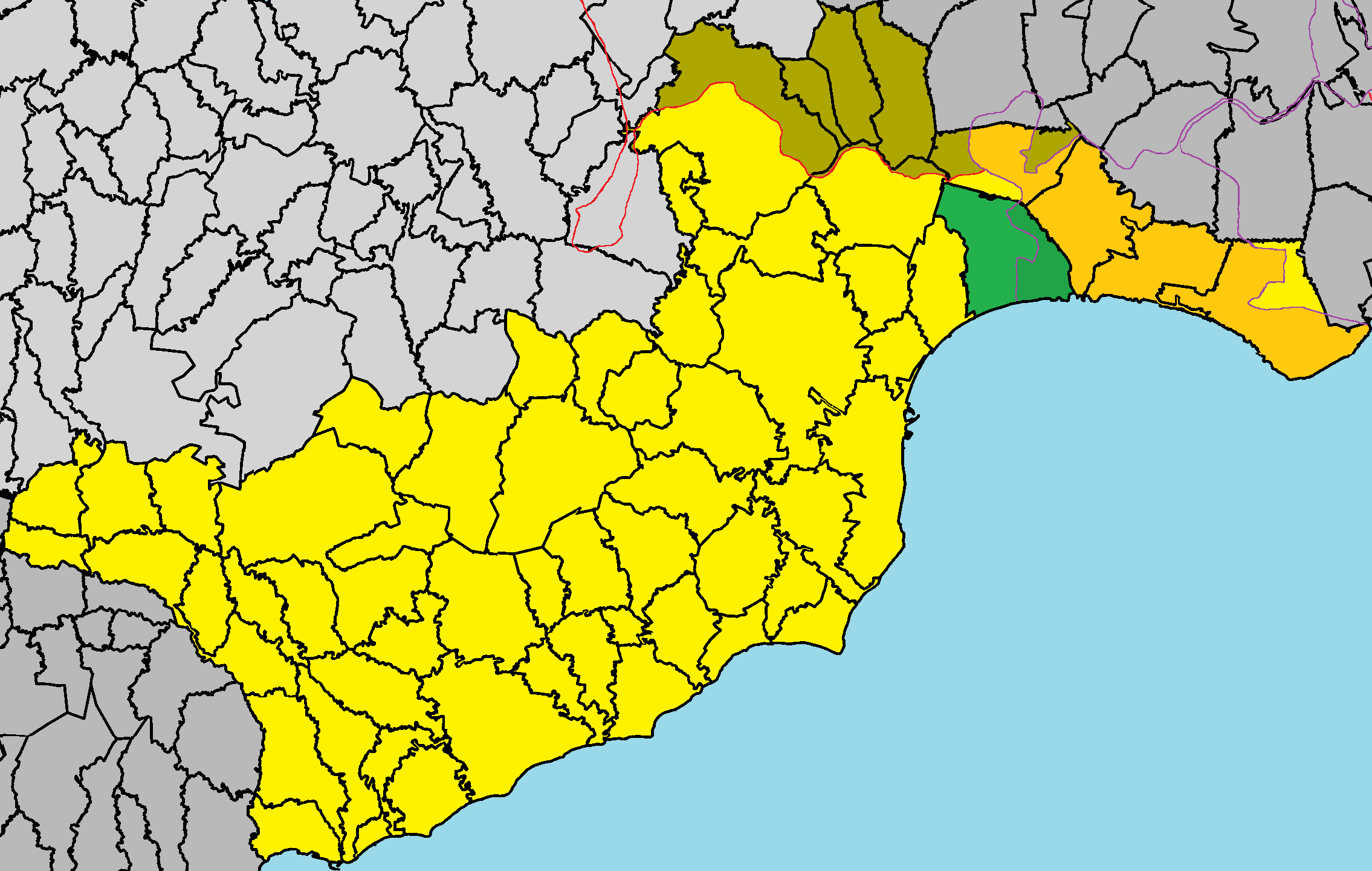 Pyla in Larnaca District.